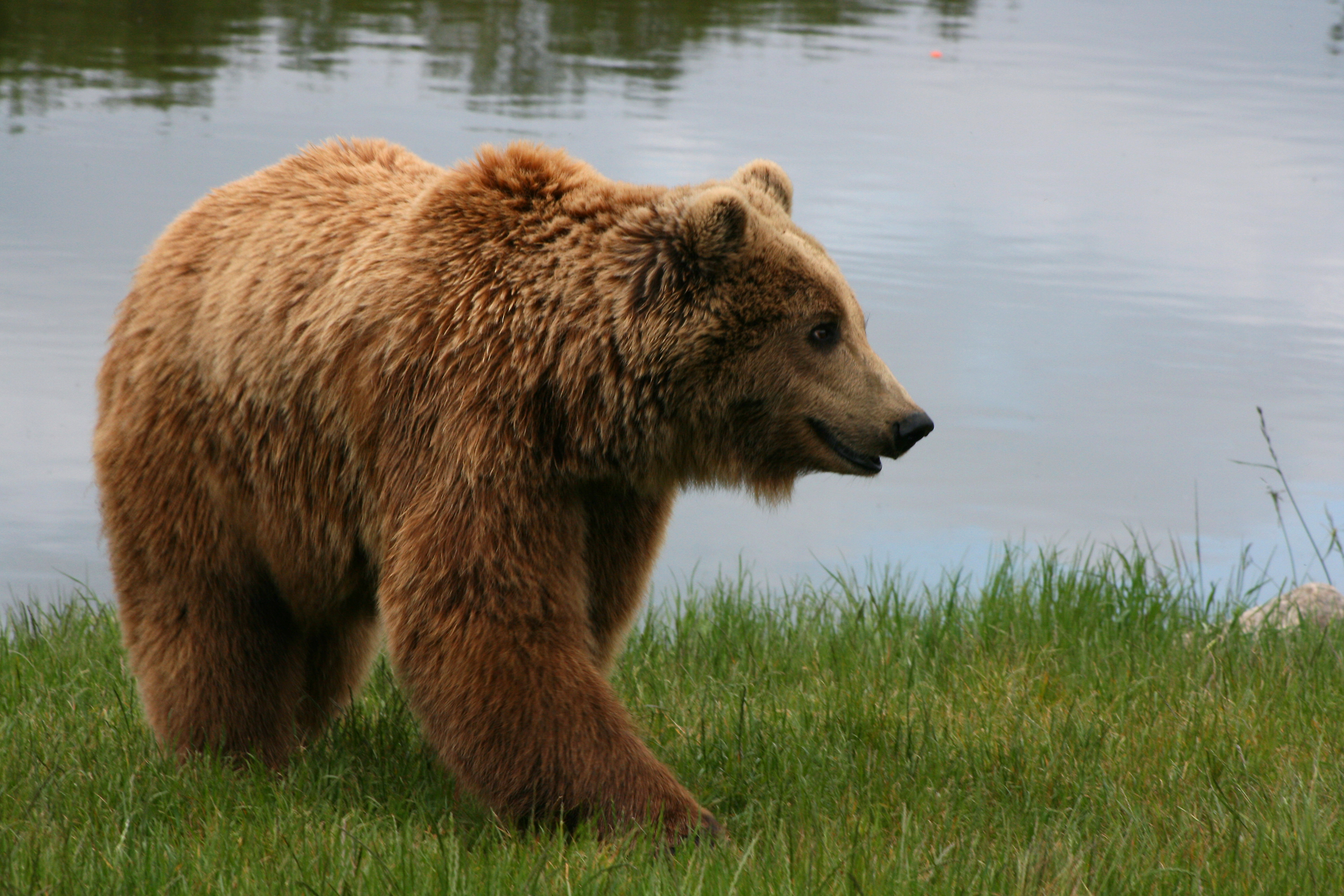 Brown bear (Ursus arctos arctos). From Skandinavisk Dyrepark, Denmark.